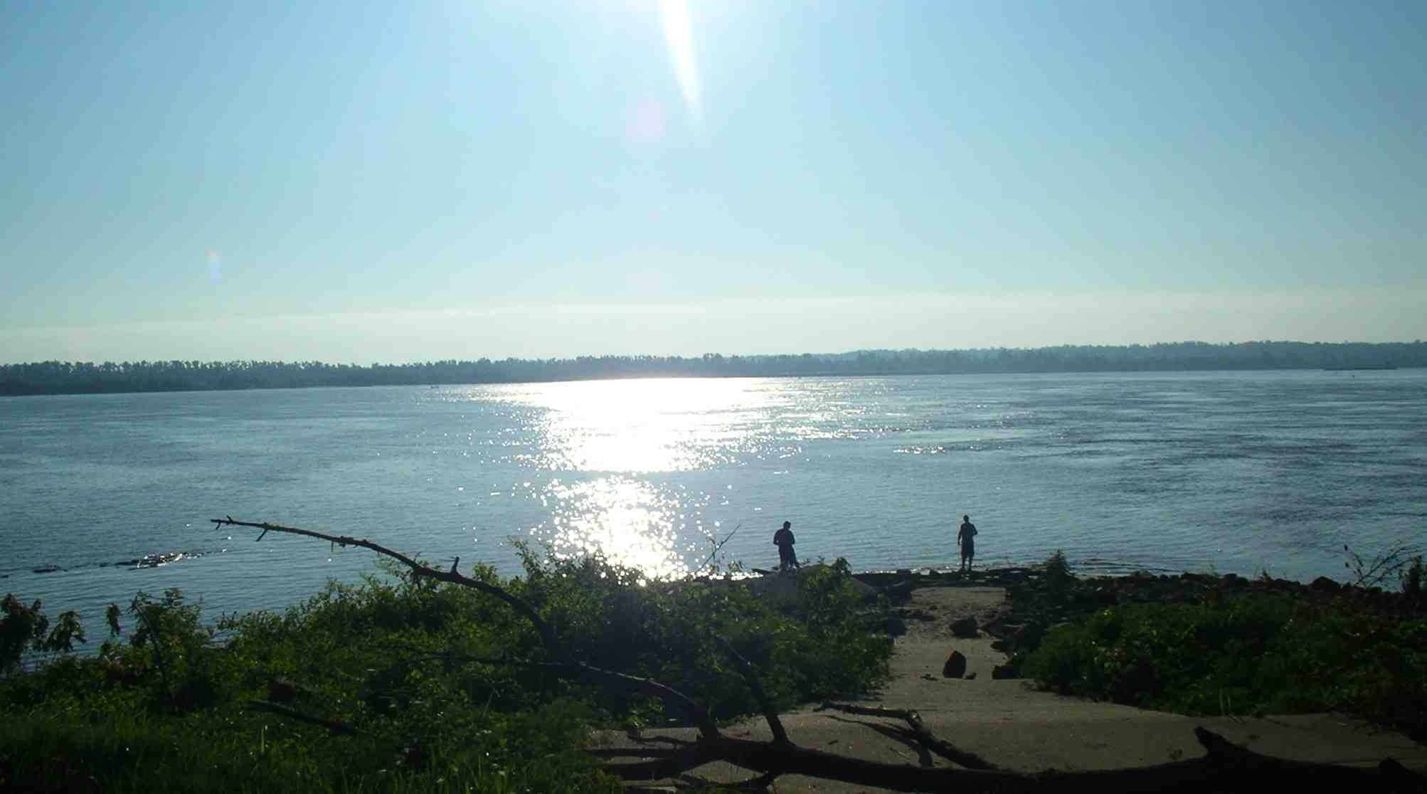 The mouth of the Ohio River at the Mississippi River at Fort Defiance near Cairo, Illinois